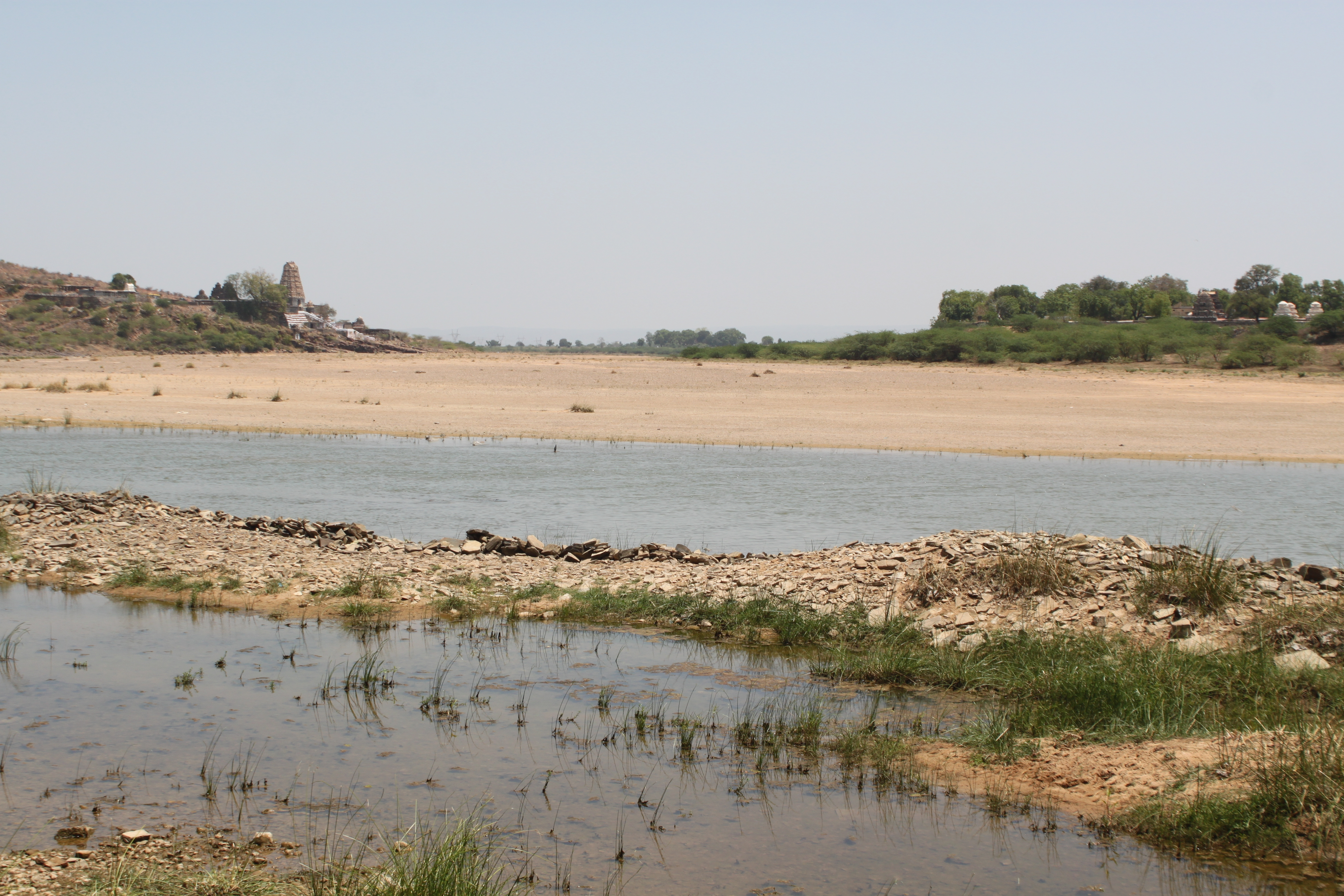 View of Pushpagiri Village and Chennakesava temple from Indranatheswara Temple